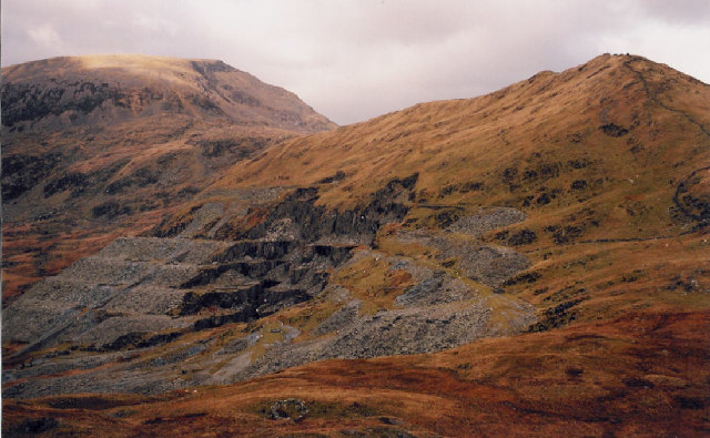 Gorseddau Quarry. Abandoned slate quarries. Moel Hebog in the background.